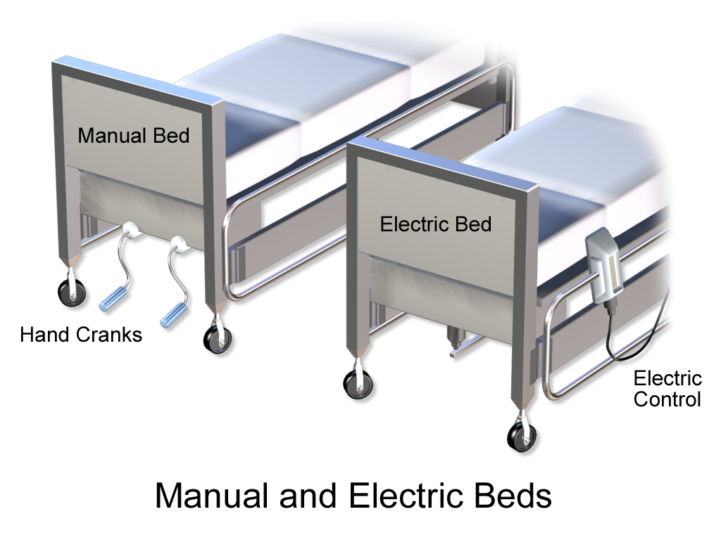 An illustration depicting manual and electric hospital beds.